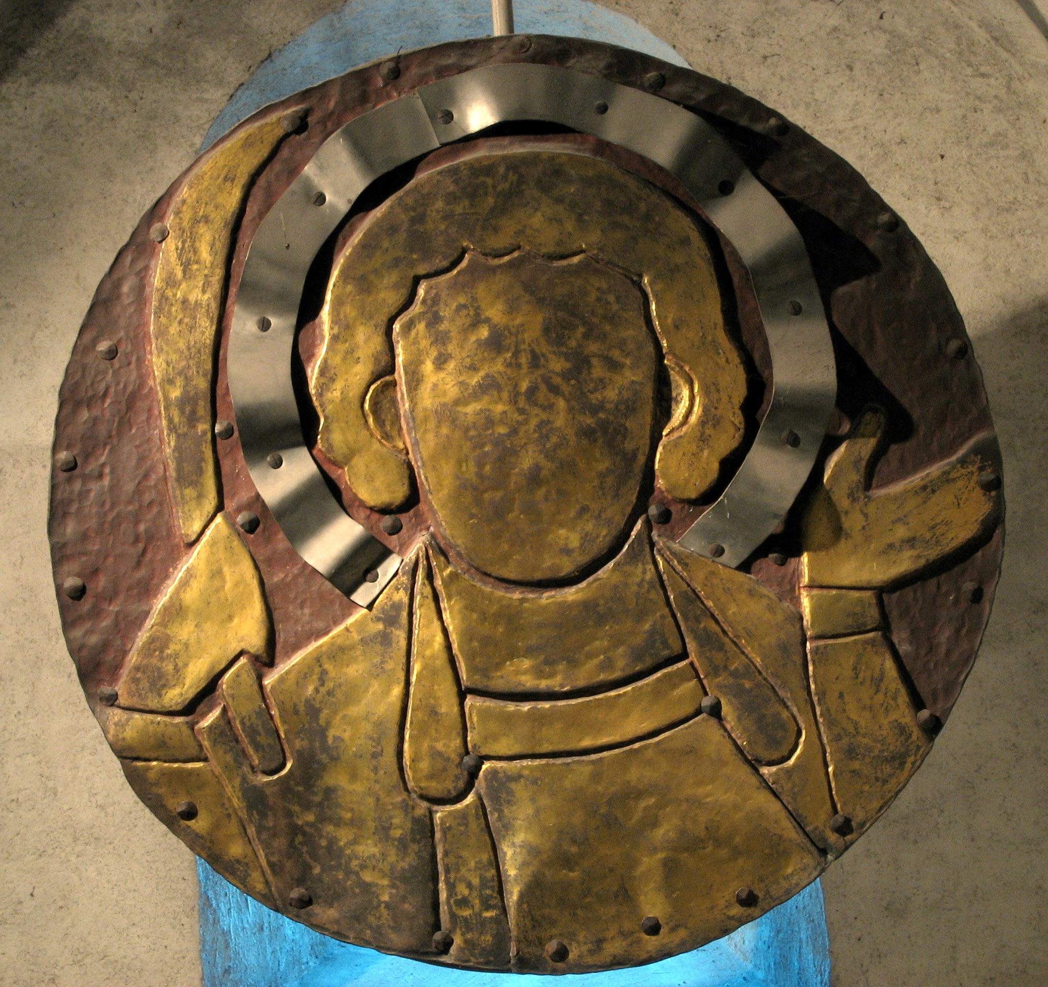 Copperplate with golden Portrait of St. Pelagius of Constance; crypt of the Cathedral of Constance; 12/13th century